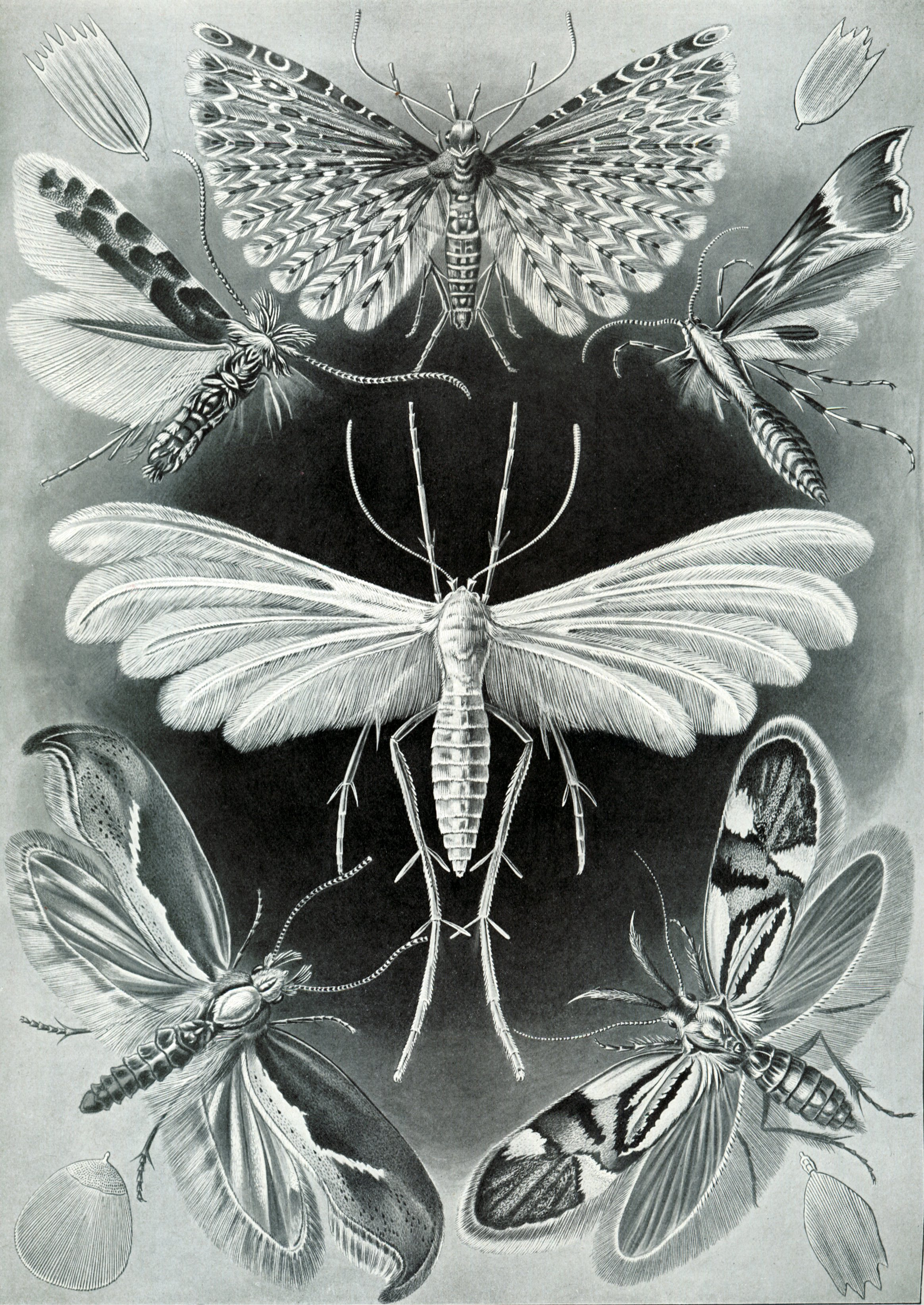 1: Twenty-plume moth 2: White Plume Moth 5: Diamondback Moth